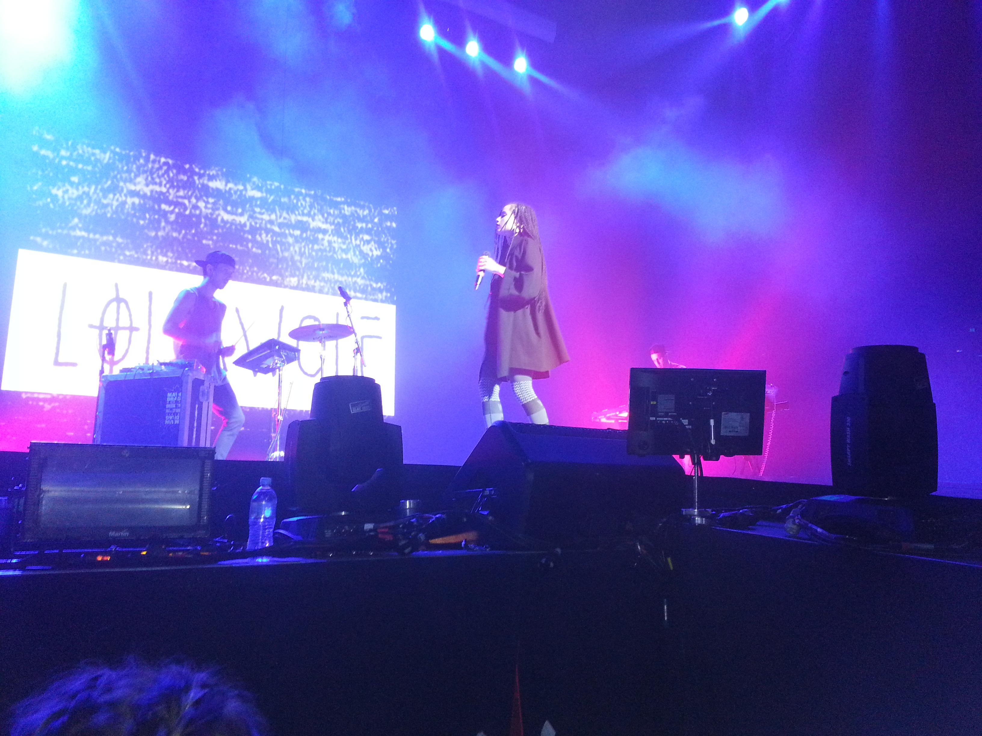 Lolawolf